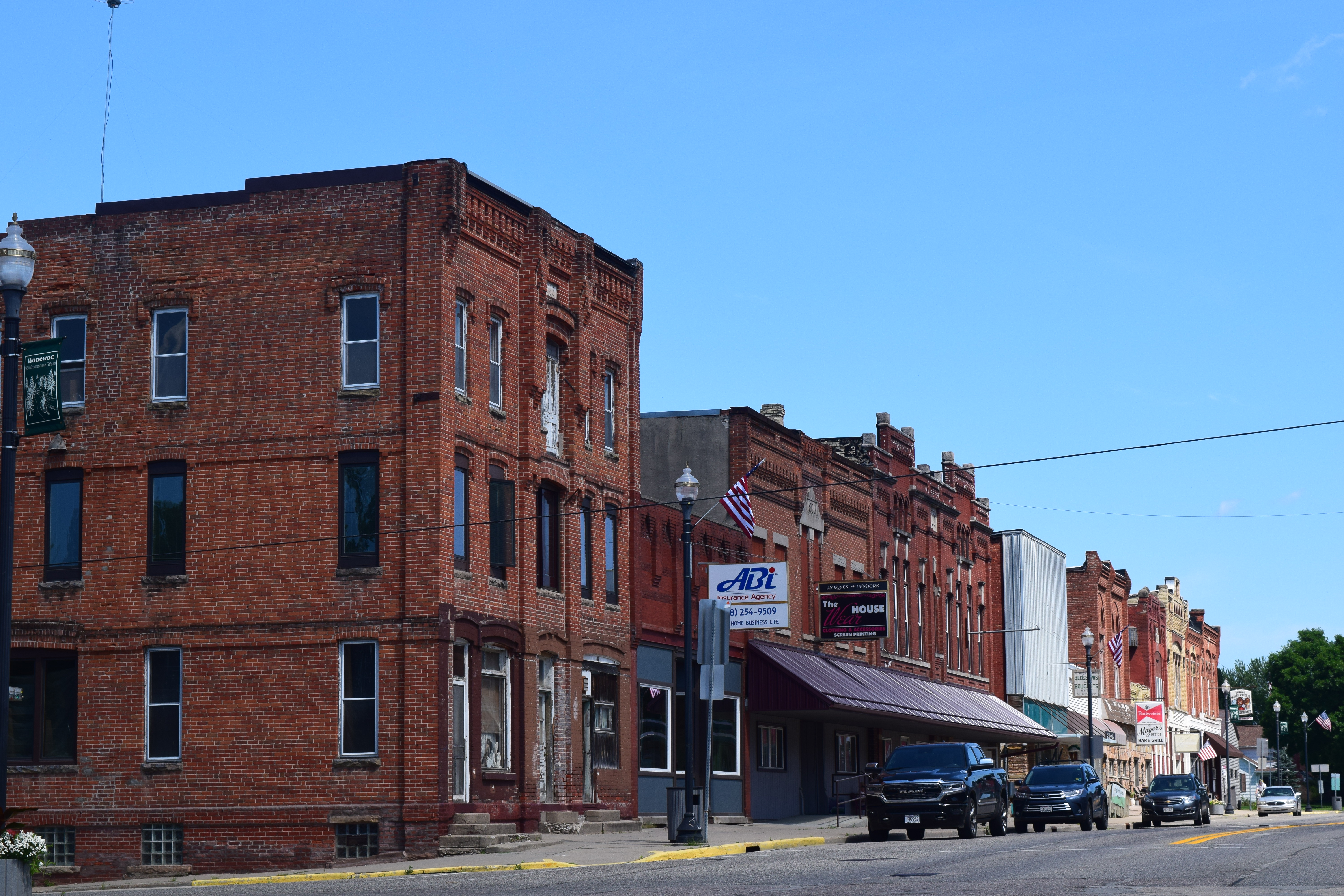 Buildings in downtown Wonewoc, Wisconsin.